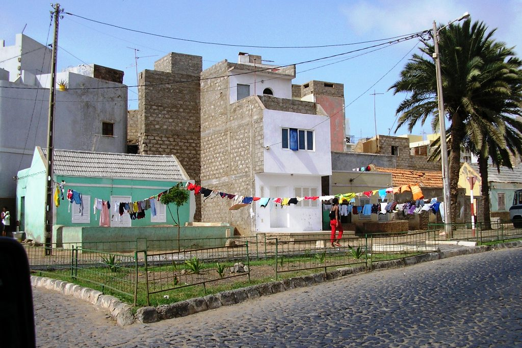 Ribeira Bote, outskirts of Mindelo town, São Vicente island, Cape Verde